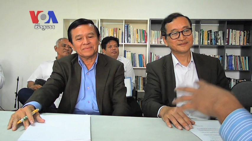 Kem Sokha, left, leader of Human Rights Party sitting alongside with Sam Rainsy, leader of Sam Rainsy Party, in Manila last month. Confirmed to be made by the VOA by the VOA bug in the lower right corner.